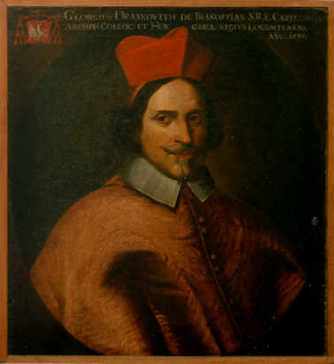 16th century portrait of Juraj Drašković